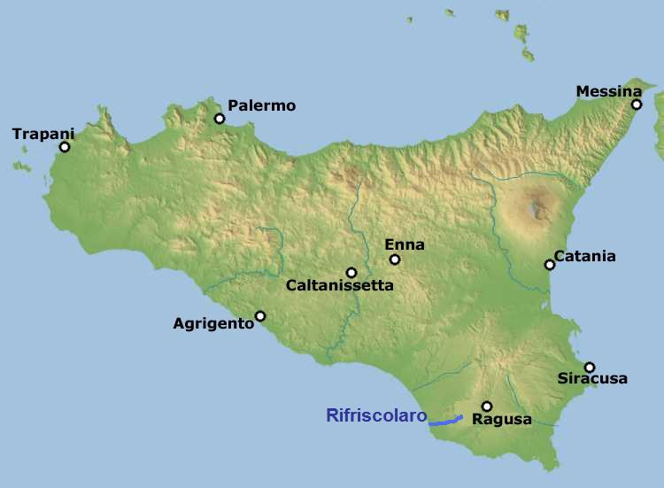 map of the river Rifriscolaro in Sicily.